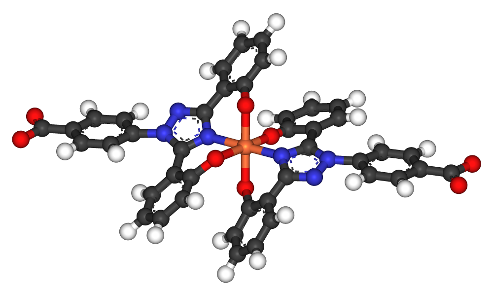 Ball-and-stick model of deferasirox chelating iron. Created using ACD/ChemSketch 10.0, Accelrys DS Visualizer Pro 1.7 and GIMP.